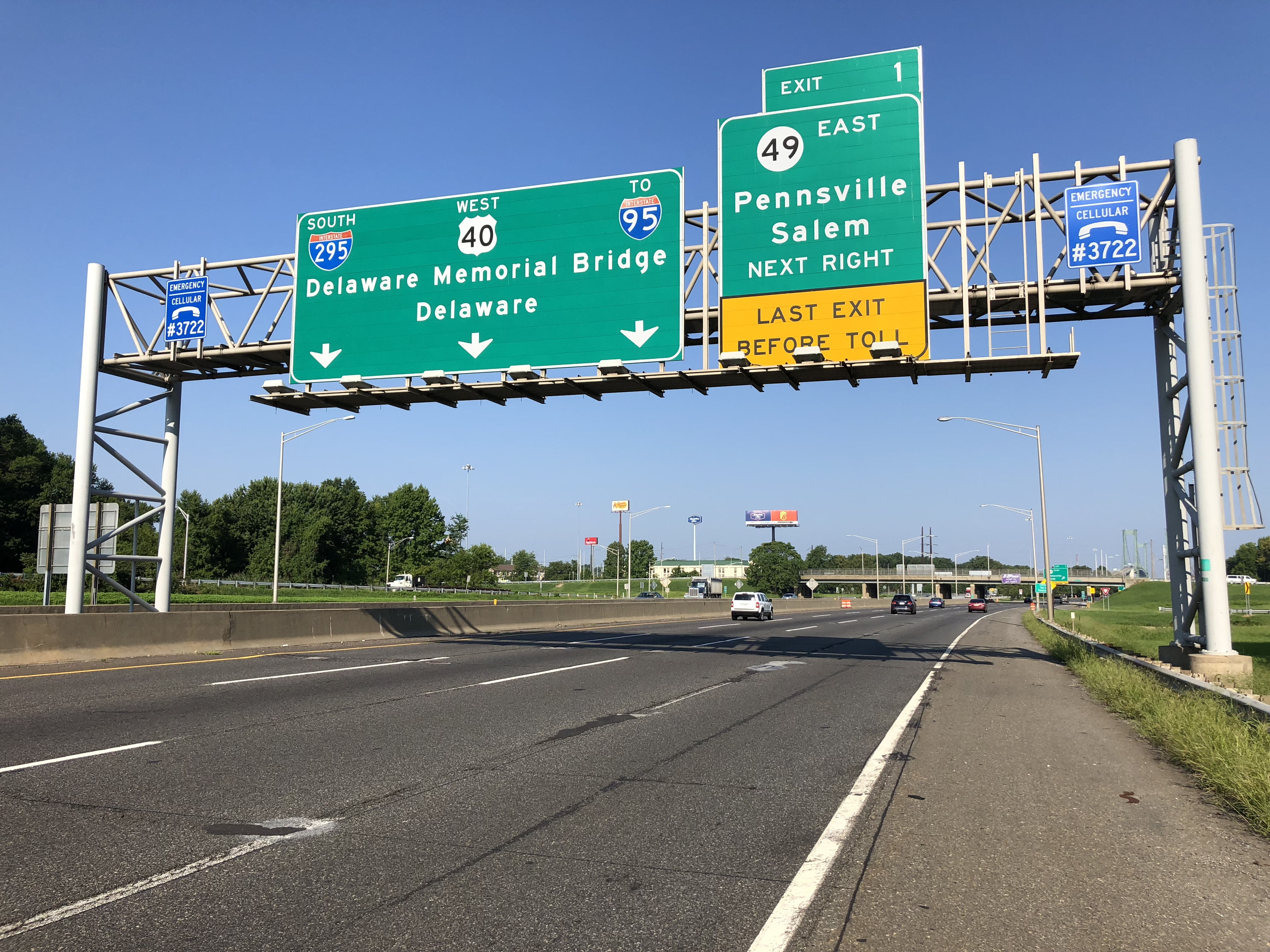 View south along Interstate 295 and New Jersey State Route 700 (New Jersey Turnpike) and west along U.S. Route 40 just north of Exit 1 (New Jersey State Route 49 EAST, Pennsville, Salem) in Pennsville Township, Salem County, New Jersey